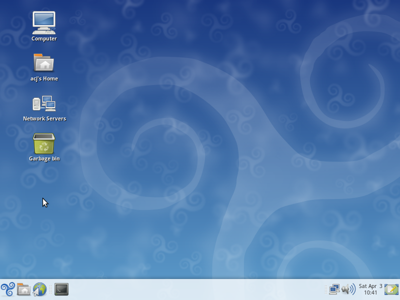 Screenshot from Trisquel 3.5 Awen. Entirely free software GNU/Linux Distribution.